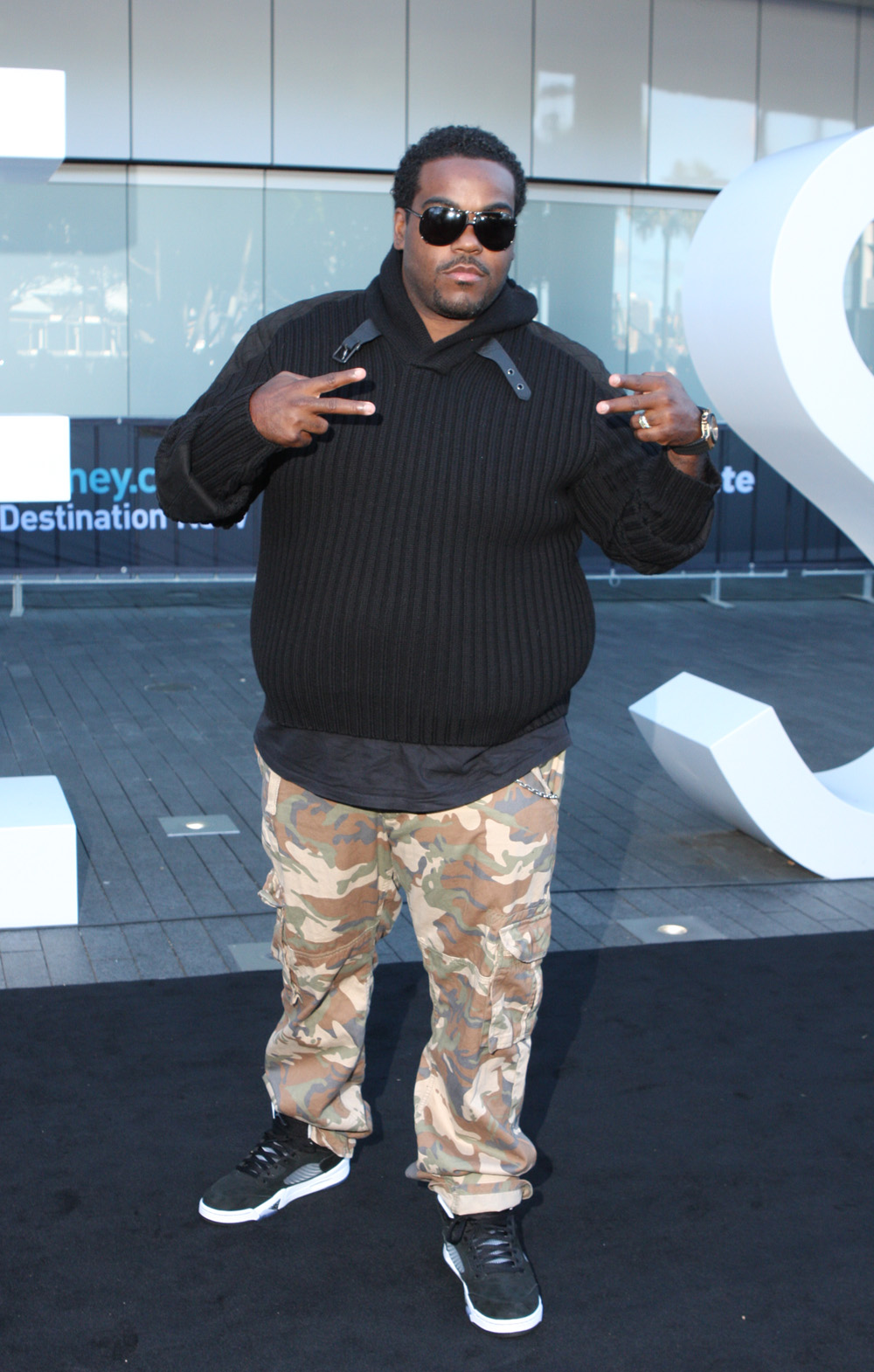 Rodney Jerkins at 27th Annual ARIA Awards 2013 in Sydney